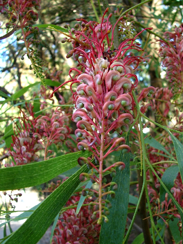 Grevillea from northern regions of Western Australia /Northern Territory and the western Gulf of Carpentaria. Grevillea neliosperma(Red grevillea, Rock grevillea) Bush or tree to 6m. Photographed: Brisbane Botanic gardens (Mt. Coot-tha), Australia